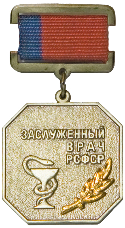 Honoured Doctor of RSFSR sign